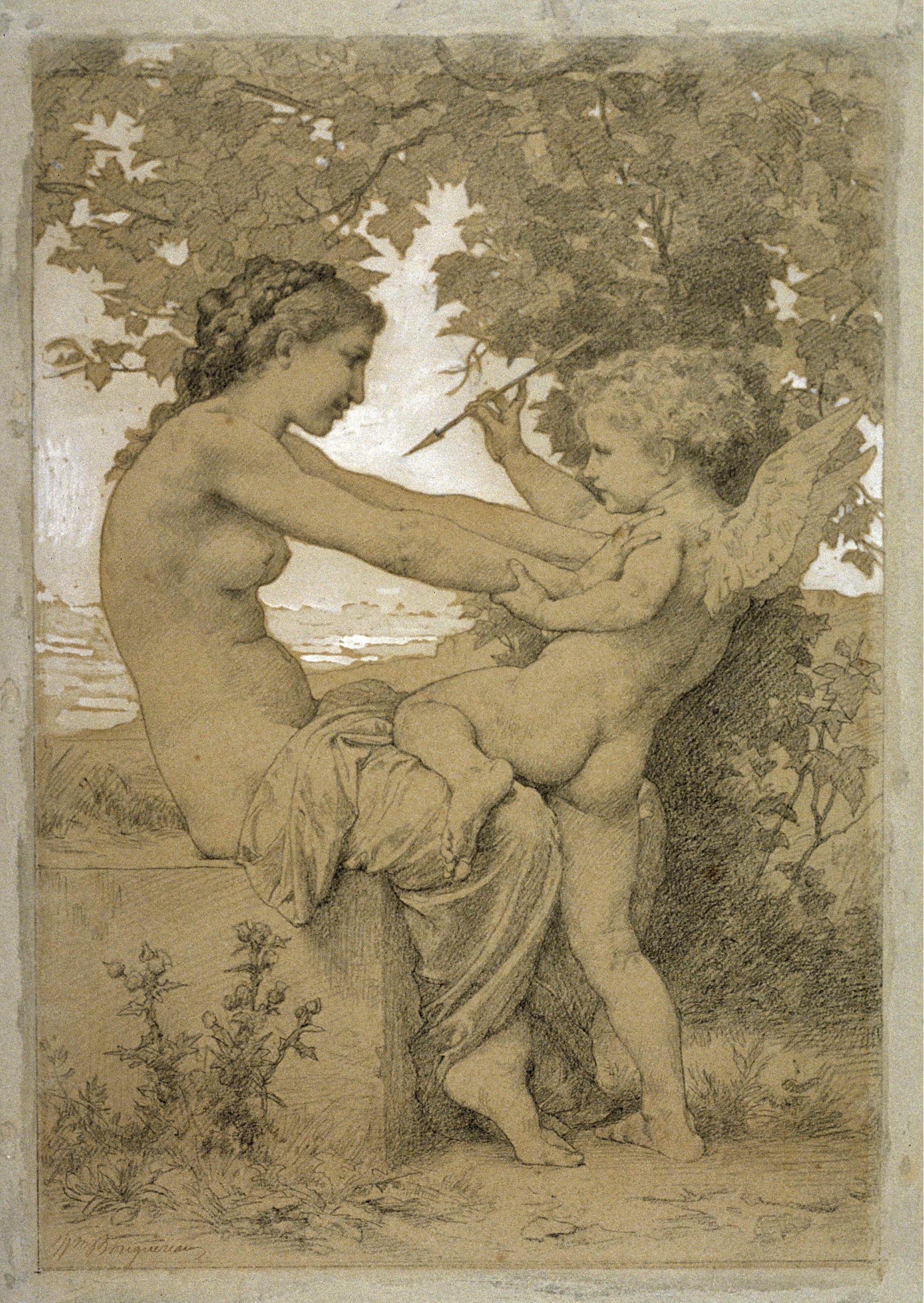 Love's Resistance (1885)